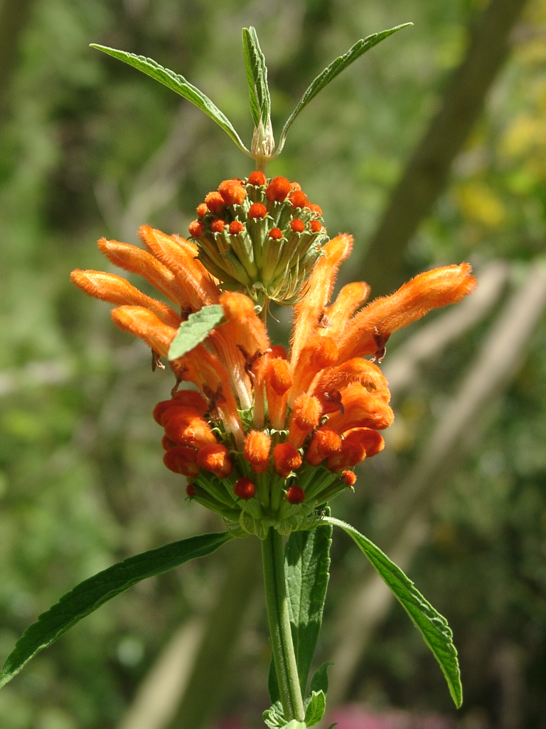 Lion's tail